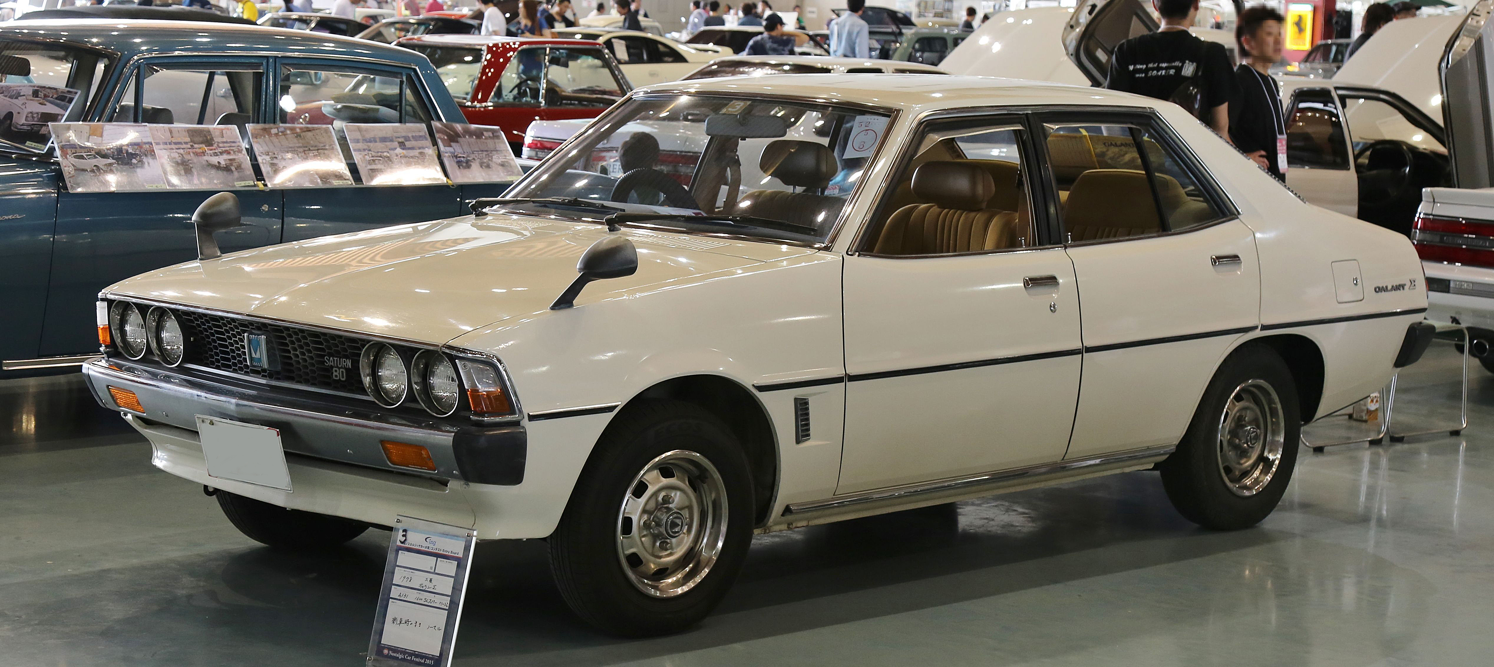 Mitsubishi Galant Sigma